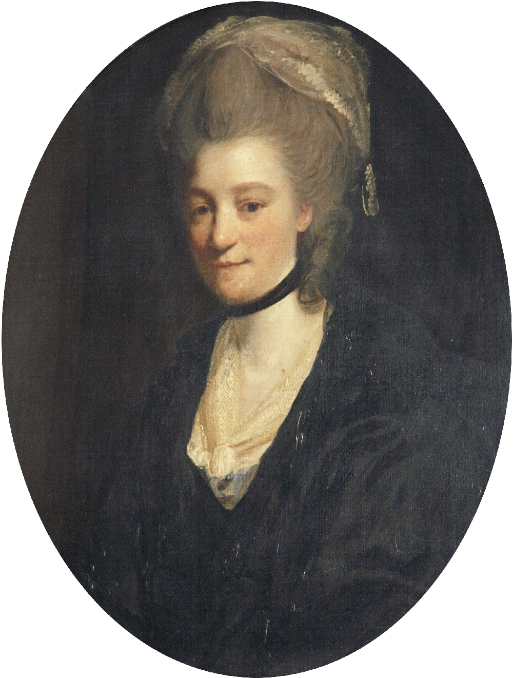 "Mrs John Clevland of Tapley" by Joshua Reynolds, Oil on canvas, 71 x 59 cm, Collection of Burton Art Gallery and Museum, Bideford, Devon. Accession number: 1991.205. Provenance: on permanent loan from H. J. I. Meredith, Esq. There were two John Clevlands of Tapeley Park in the parish of Westleigh, near Bideford, Devon: John I Clevland (1706-1763), who married 3 times, in 1729, in 1743 and in 1747. His son John II Clevland (1734-1817) married once, in 1782 to Elizabeth Stevens (1727-1792), who would have been aged 55 at the time of her marriage. The sitter is a young woman, so cannot be of her. It is thus likely to be one of John I's wives. He married the first one in 1729, when Reynolds was aged 6, and she died before 1743, when Reynolds was aged 20. John I's 2nd wife he married in 1743 and she was dead before 1747, when Reynolds was only 24. John I's 3rd wife, Sarah Shuckburgh (d.1764), who had 4 children by him, he married in 1747. This 3rd wife is thus perhaps the sitter.